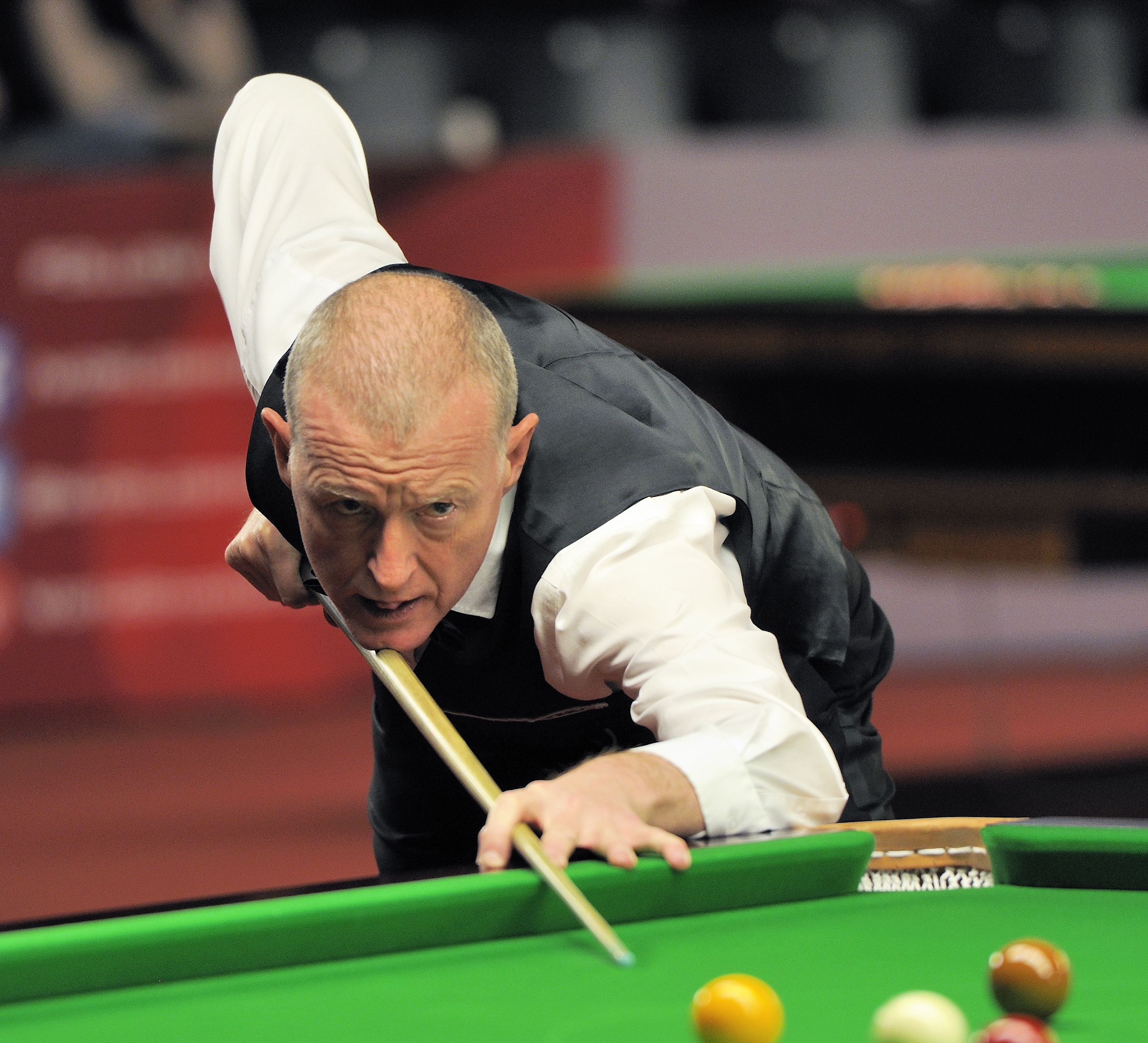 Picture taken in Berlin during the Snooker German Masters in 2014. Steve Davis.